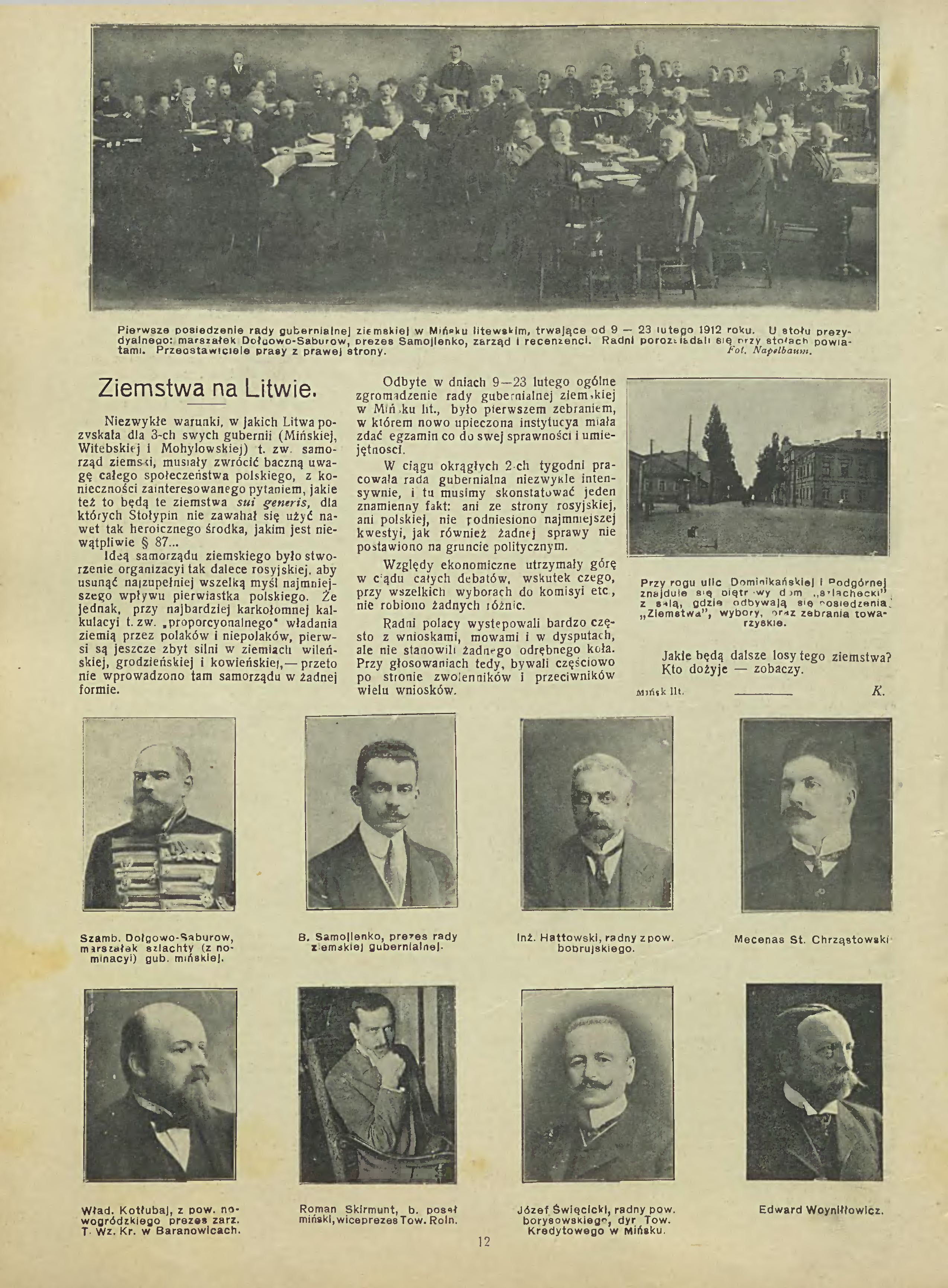 an article about the county self-government ("zemstvo") in Minsk governorate (Russian empire) -- the newspaper "Świat" #11, 1912 AD (Warsaw city, Russian empire), page 12